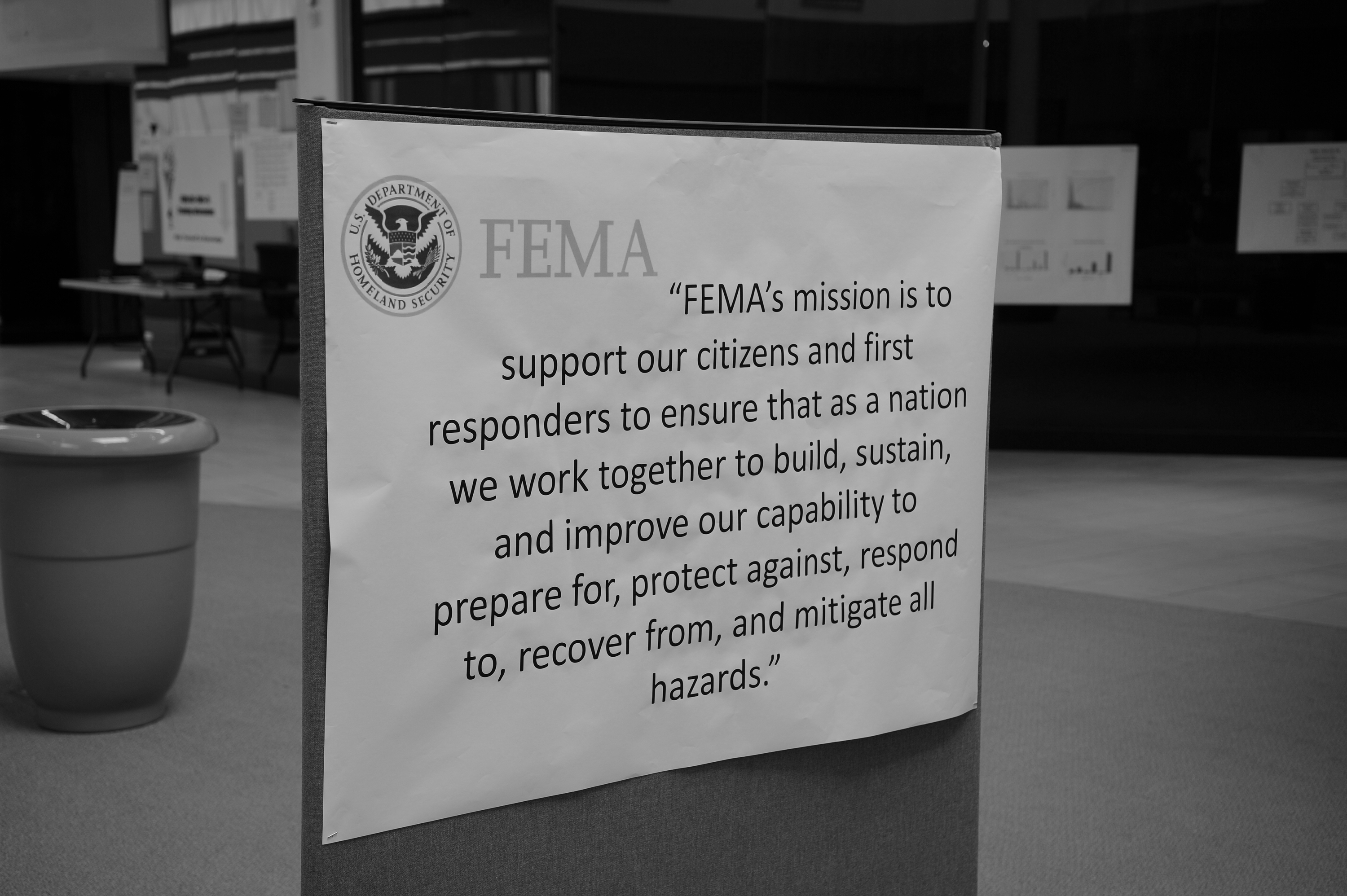 Antioch, TN, July 9, 2010 -- The FEMA Mission Statement is clearly visible at the DR-1909 Joint Field Office in Antioch Tennessee. Head of the Federal Emergency Management Agency Craig Fugate changed the mission statement in September of 2009 to a more modest and collaborative pledge. Martin Grube/FEMA